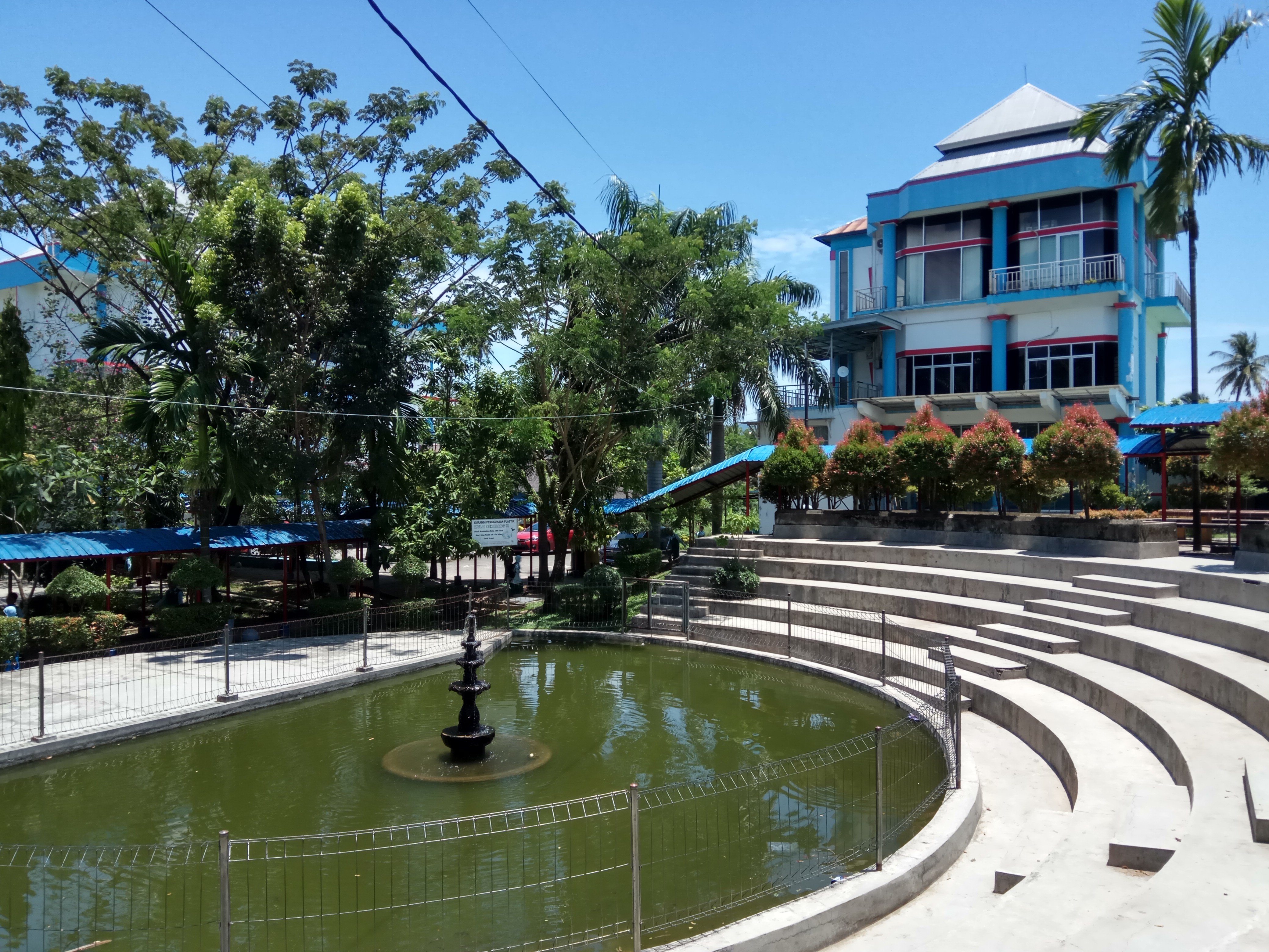 Azkia Padang 2018